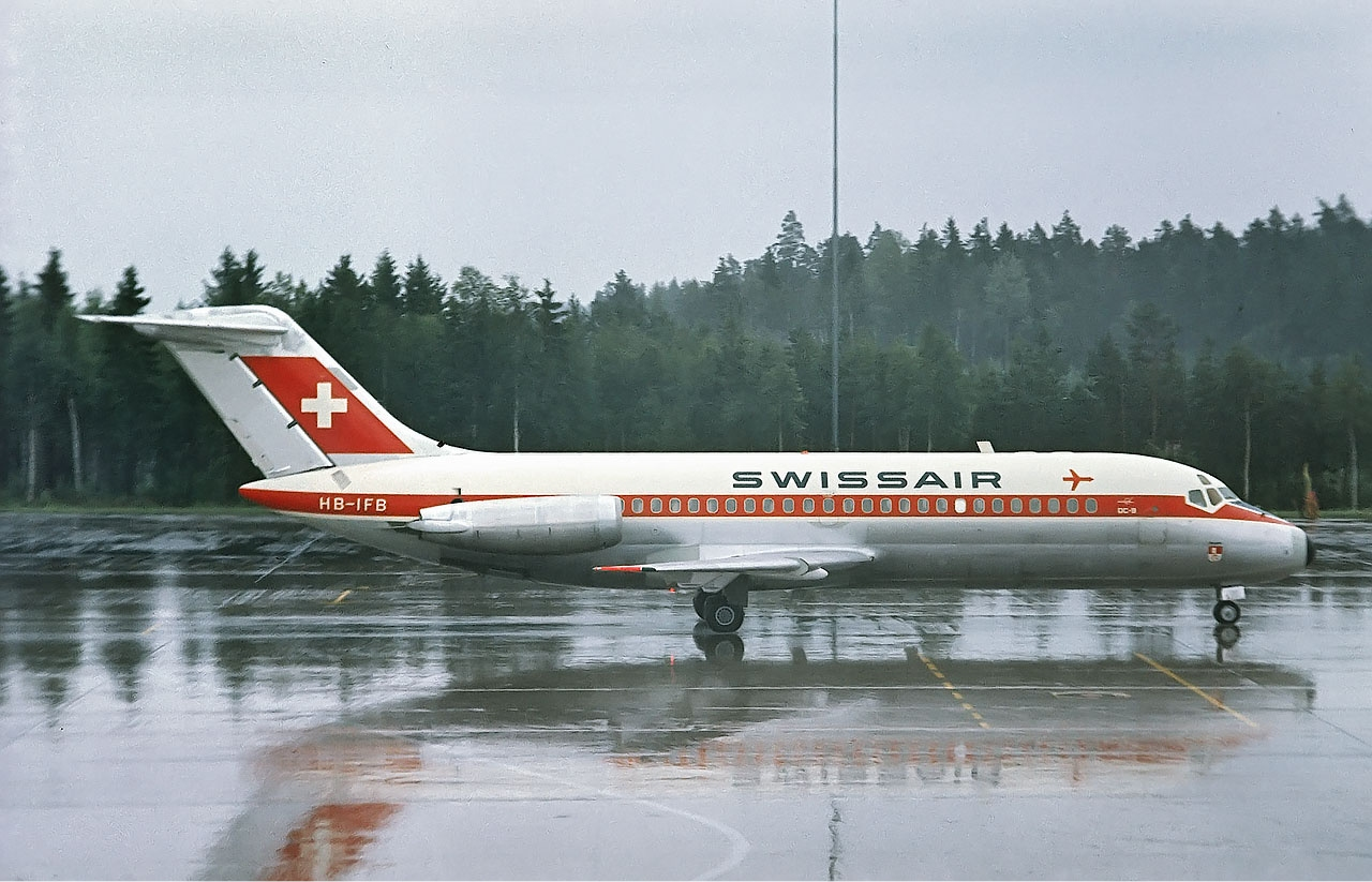 Swissair Douglas DC-9-15